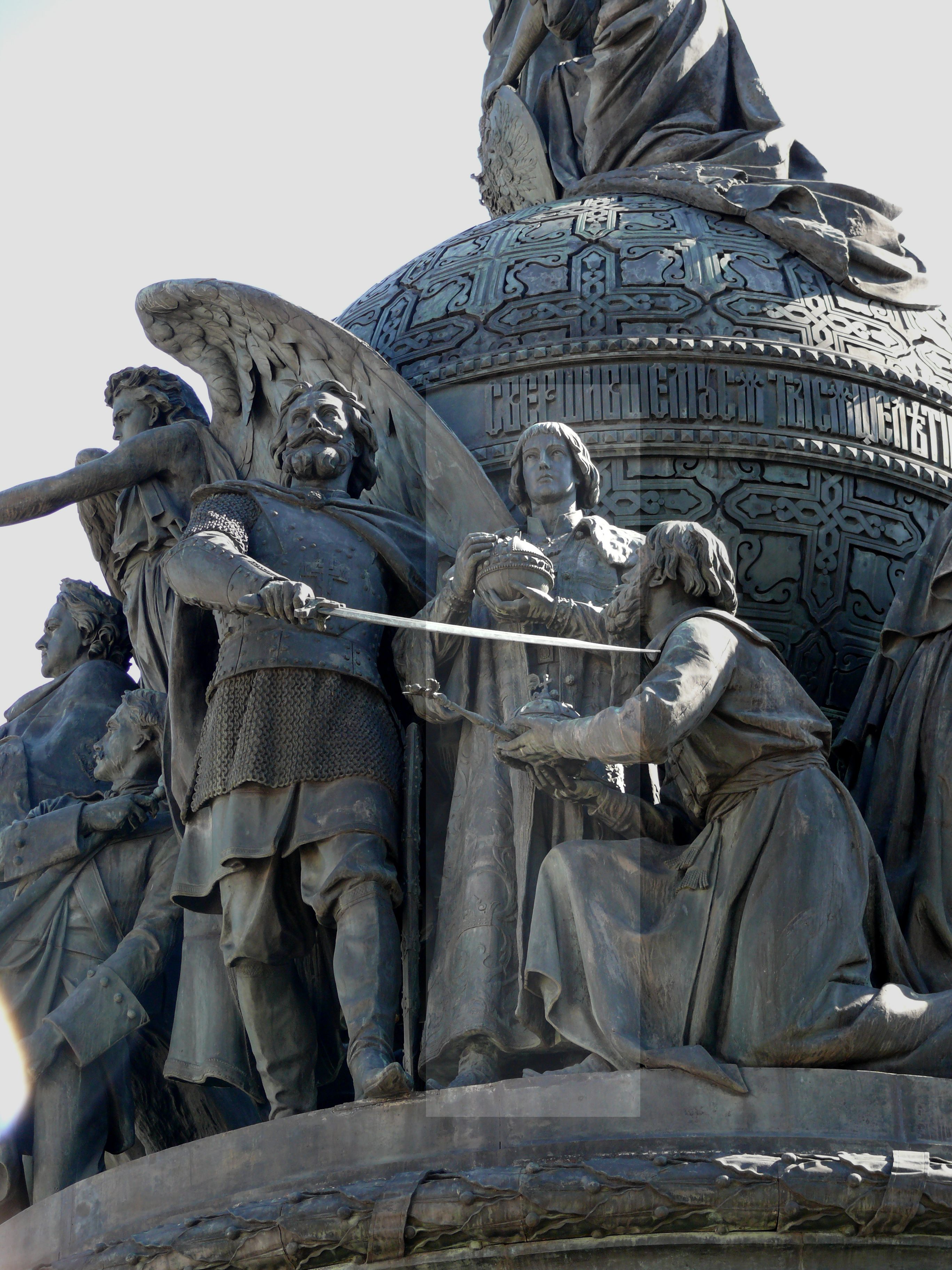 Michael I of Russia on the Monument «Millennium of Russia» in Veliky Novgorod